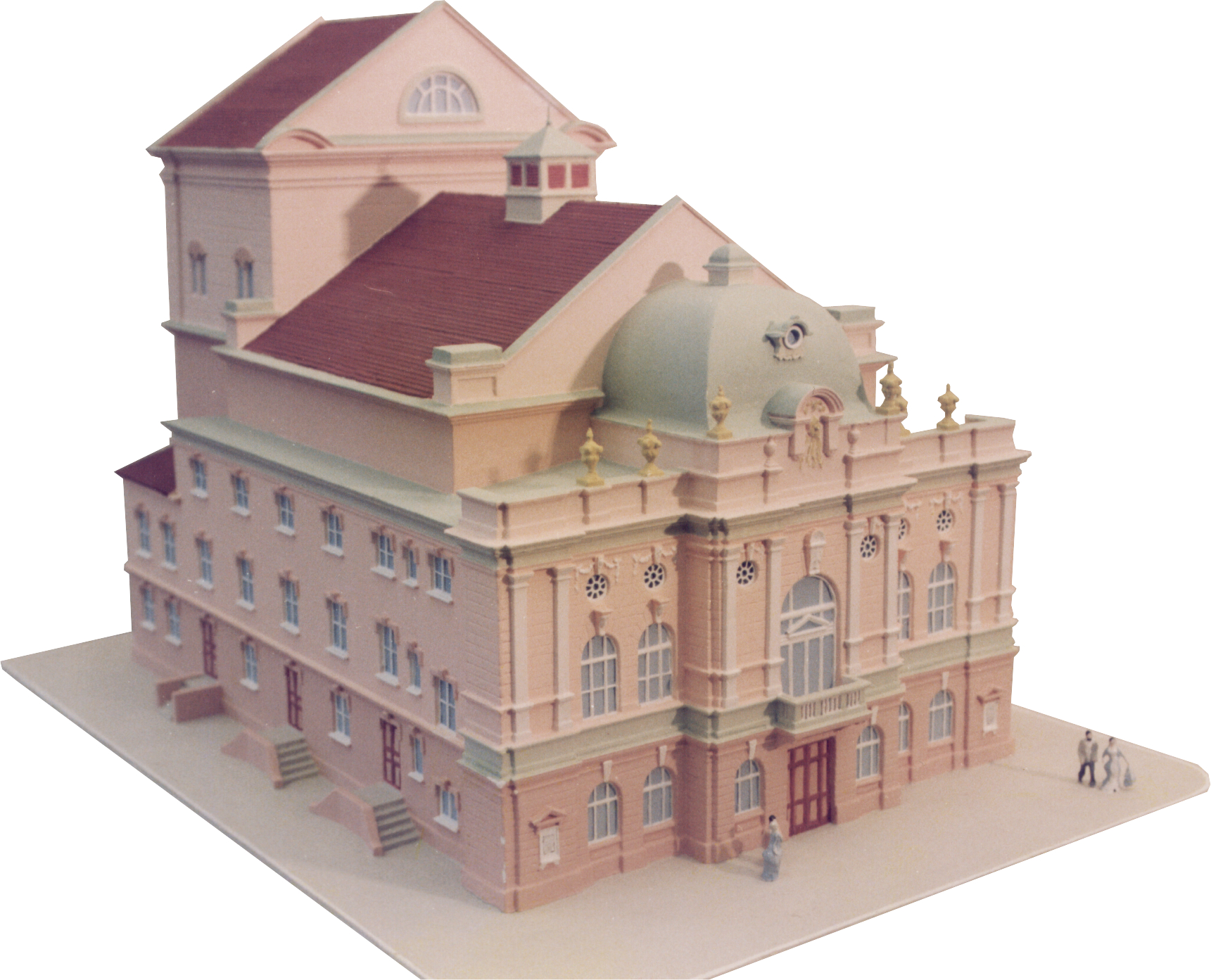 Model of the burnt Dunđerski Theatre, Đorđe Tabaković’s work (made by Sándor Nagy, a senior curator). Model made of plaster. Srpski (latinica): Maketa izgorelog Dunđerskovog pozorišta, rad Đorđa Tabakovića (izradio Šandor Nađ, viši kustos) Maketa je rađena u gipsu. Српски (ћирилица): Макета изгорелог Дунђерсковог позоришта, рад Ђорђа Табаковића (израдио Шандор Нађ, виши кустос). Макета је рађена у гипсу.